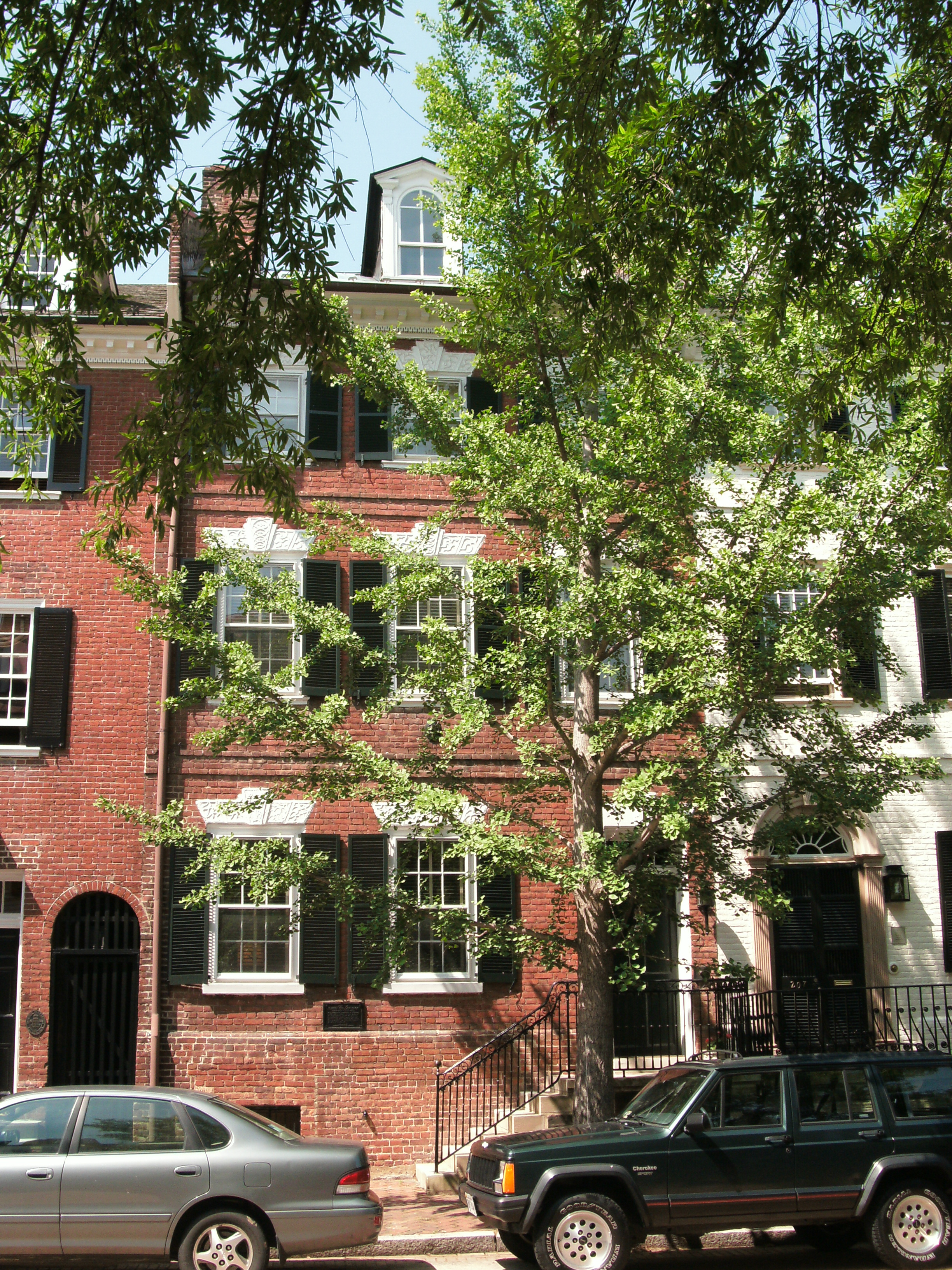 Image I took for Wikipedia